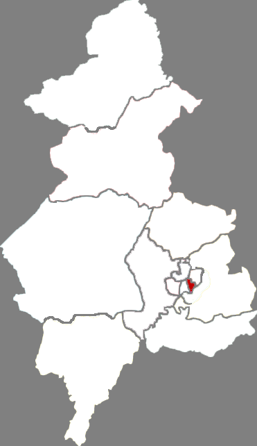 Location of Shenhe district in Shenyang City, China